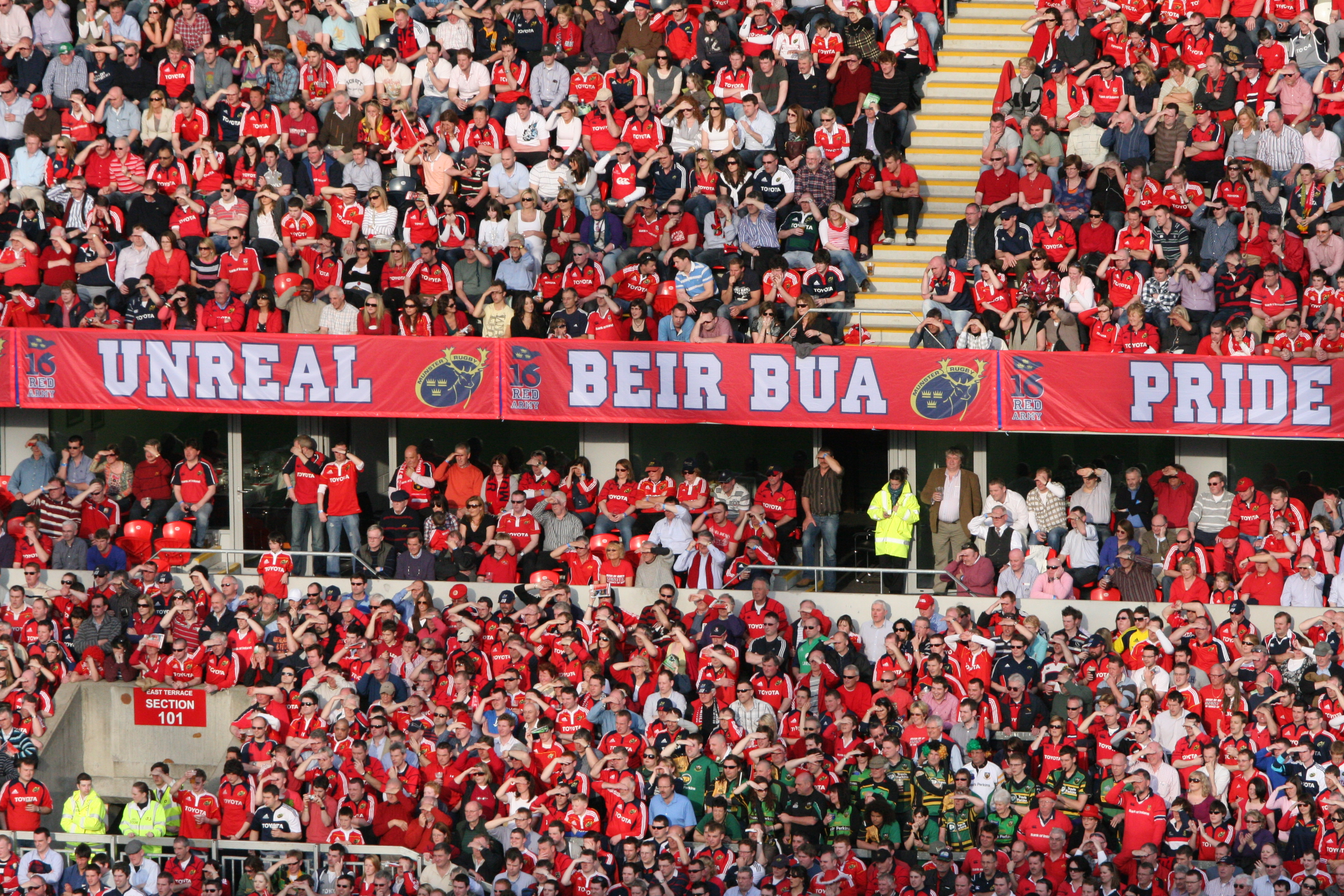 Munster fans at the Munster Vs. Northampton Saints game in April 2010